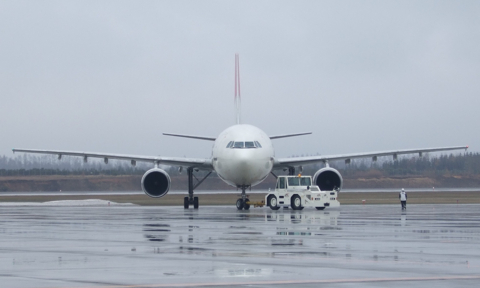 A300-600/600R. 200604 Obihiro Japan.